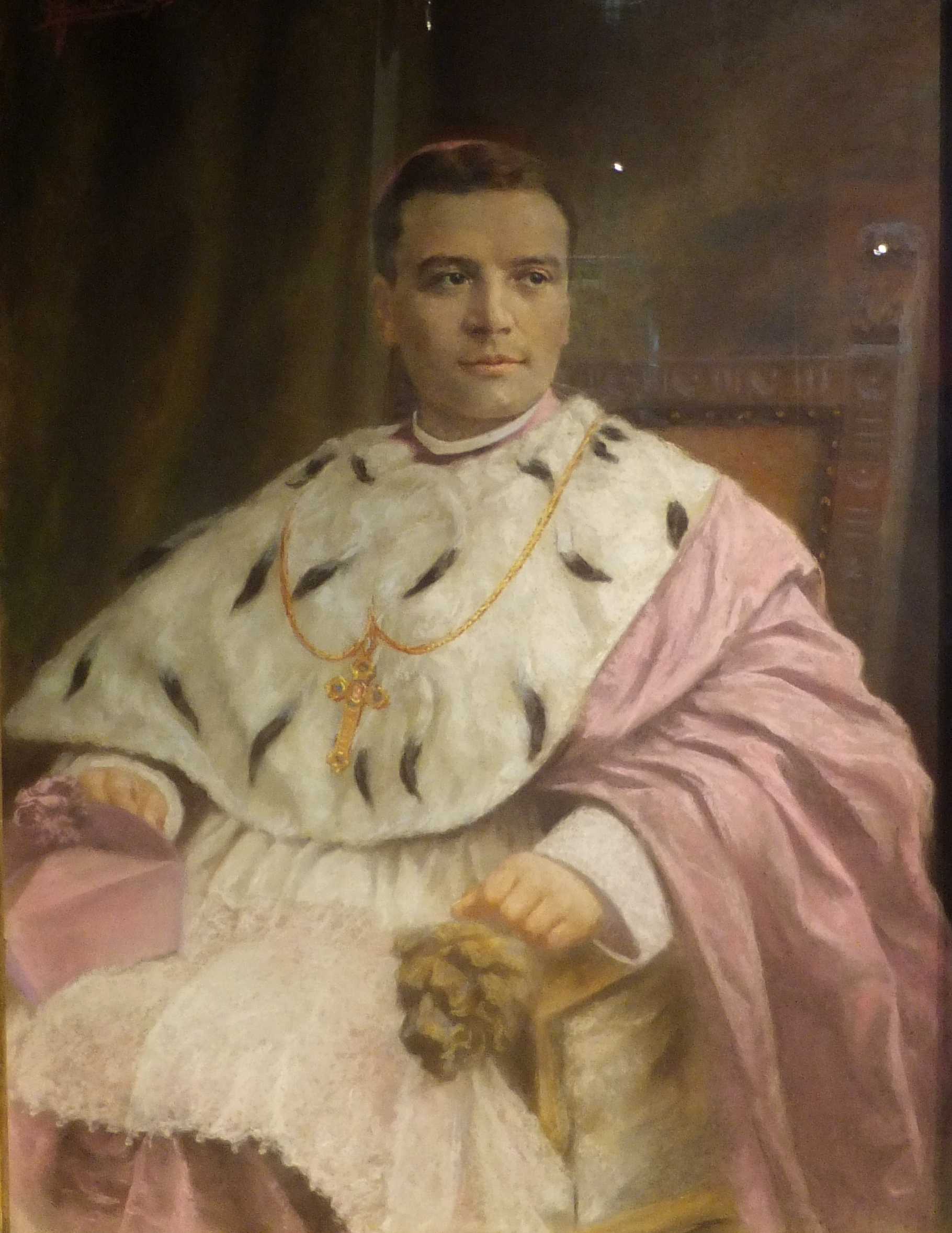 Portrait of bishop Celestino Endrici, by Giovanni Battista Chiocchetti, 1905